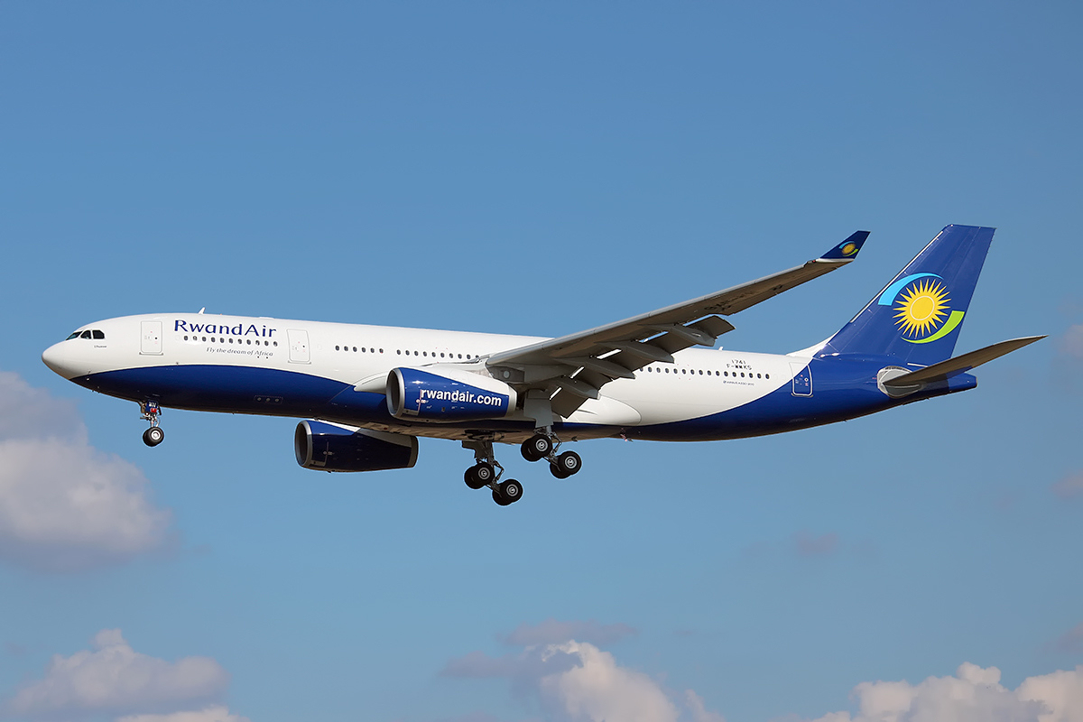 RwandAir Airbus A330-243 on finals into Toulouse. The aircraft is wearing the temporary registration of F-WWKS and was re-registered 9XR-WN on delivery to RwandAir